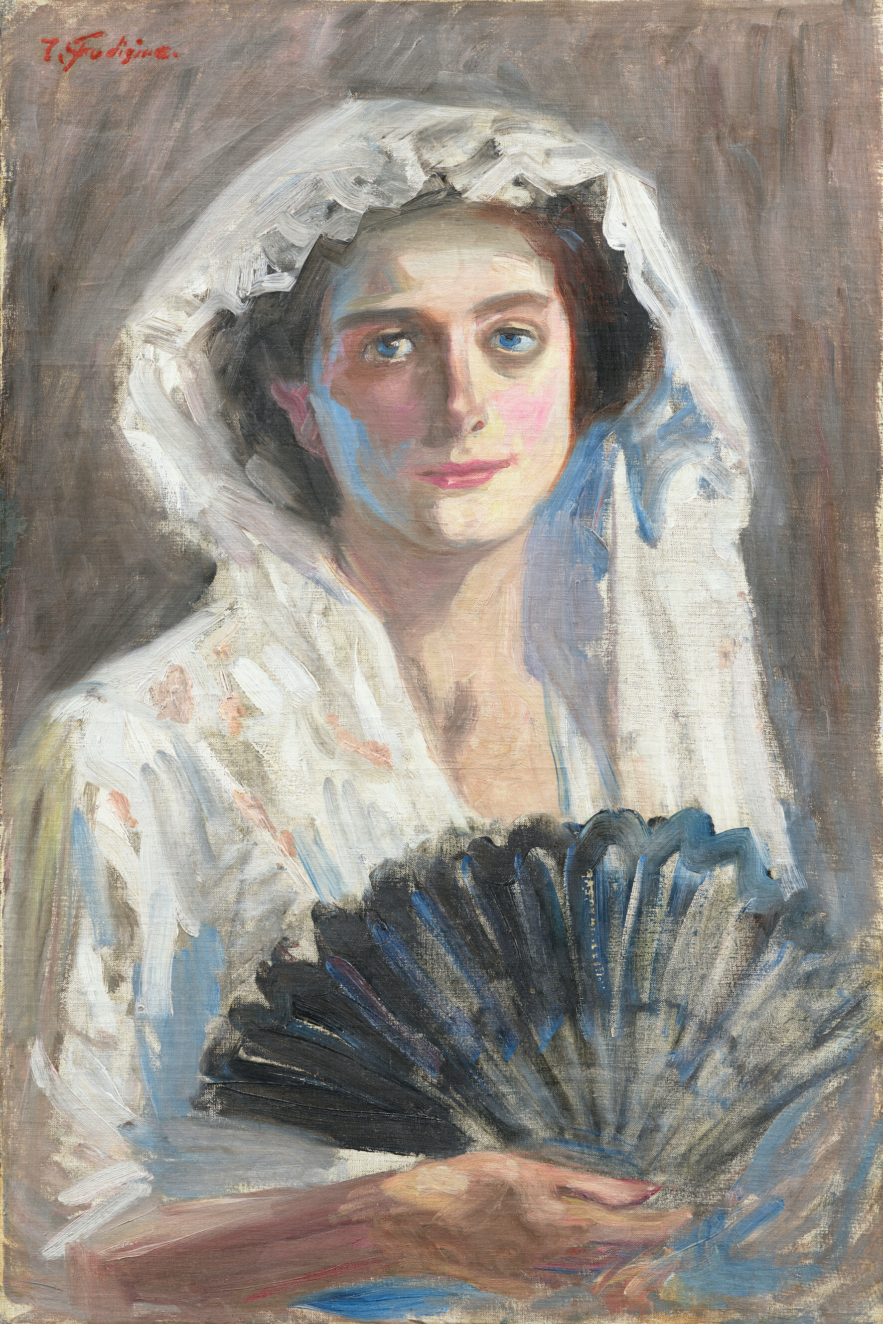 "Black Fan" (黒扇)